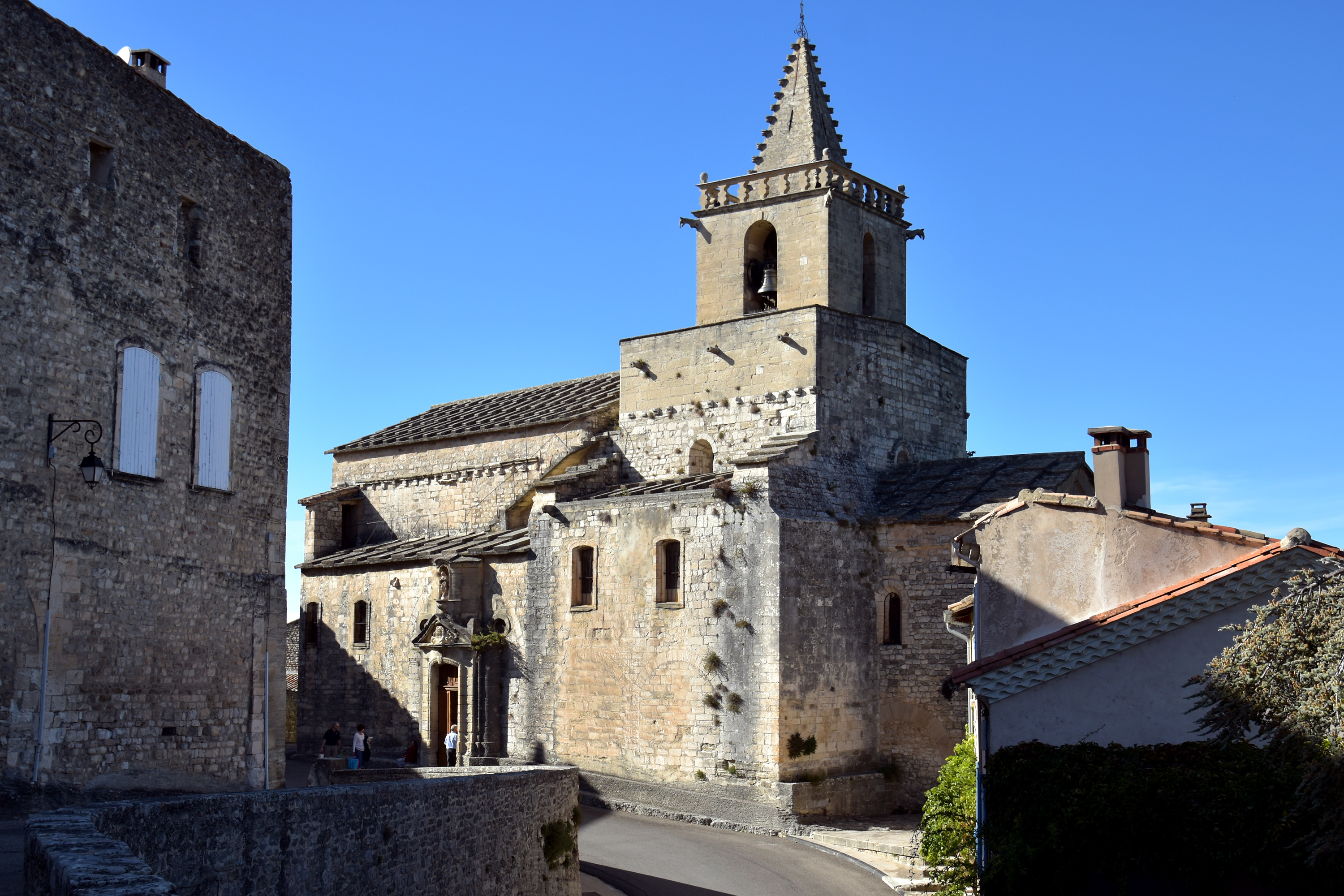 Venasque